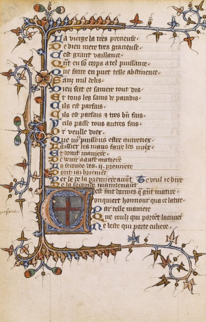 Français 25447 f5v